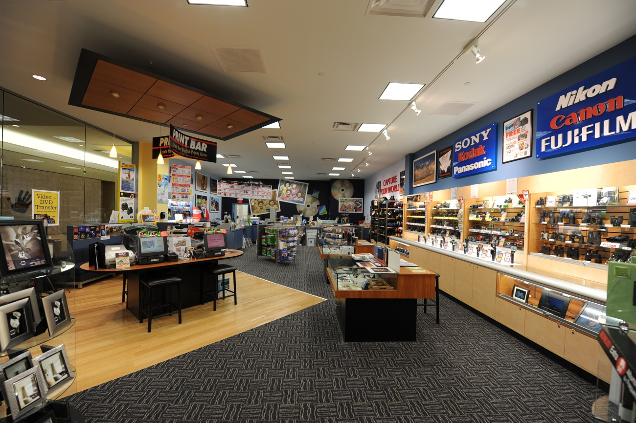 Ritz Camera Centers, #1385, Towncenter Mall, Boca Raton, FL